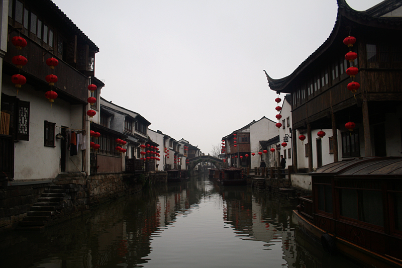 Suzhou canal